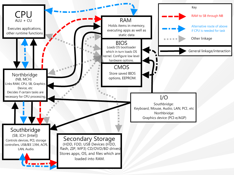 A semi advanced diagram showing the role of the chipset in some situations, such as a file transfer. It also shows the role of some other components of a PC system.